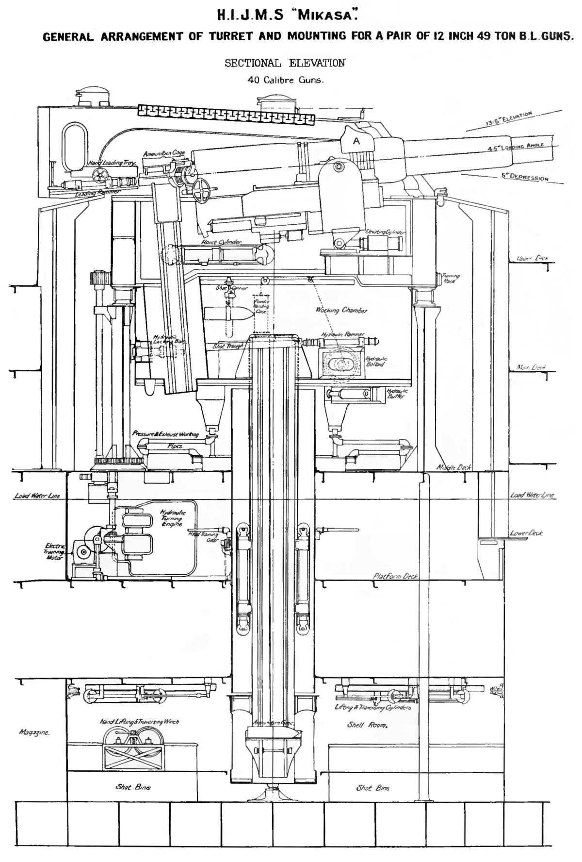 Right elevation diagram of 12-inch 40-calibre gun turret of Japanese battleship Mikasa. A hydraulic rammer is used.